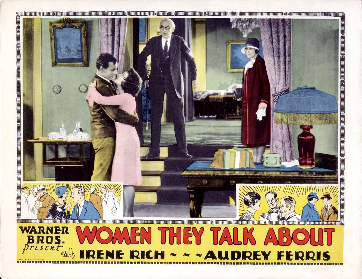 Lobby card for the American comedy drama film Women They Talk About (1928). The item has no copyright markings on it as can be seen in the links above. At bottom left (in border) is Country of origin USA.